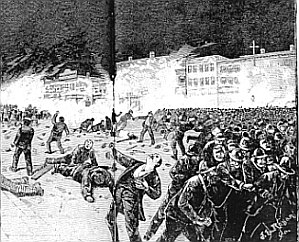 This 19th century engraving showing exaggerated flames and smoke was published in popular newspapers and magazines during the days and weeks following the Haymarket riot. It also appeared in some history textbooks. (From user talk:MyRedDice), "Yes, all my images are in public domain. I will indicate the date of the photo from now on. Thank you for being concerned." -- Greenmountainboy 18:01, 13 Dec 2003 (UTC) Category:United States history images